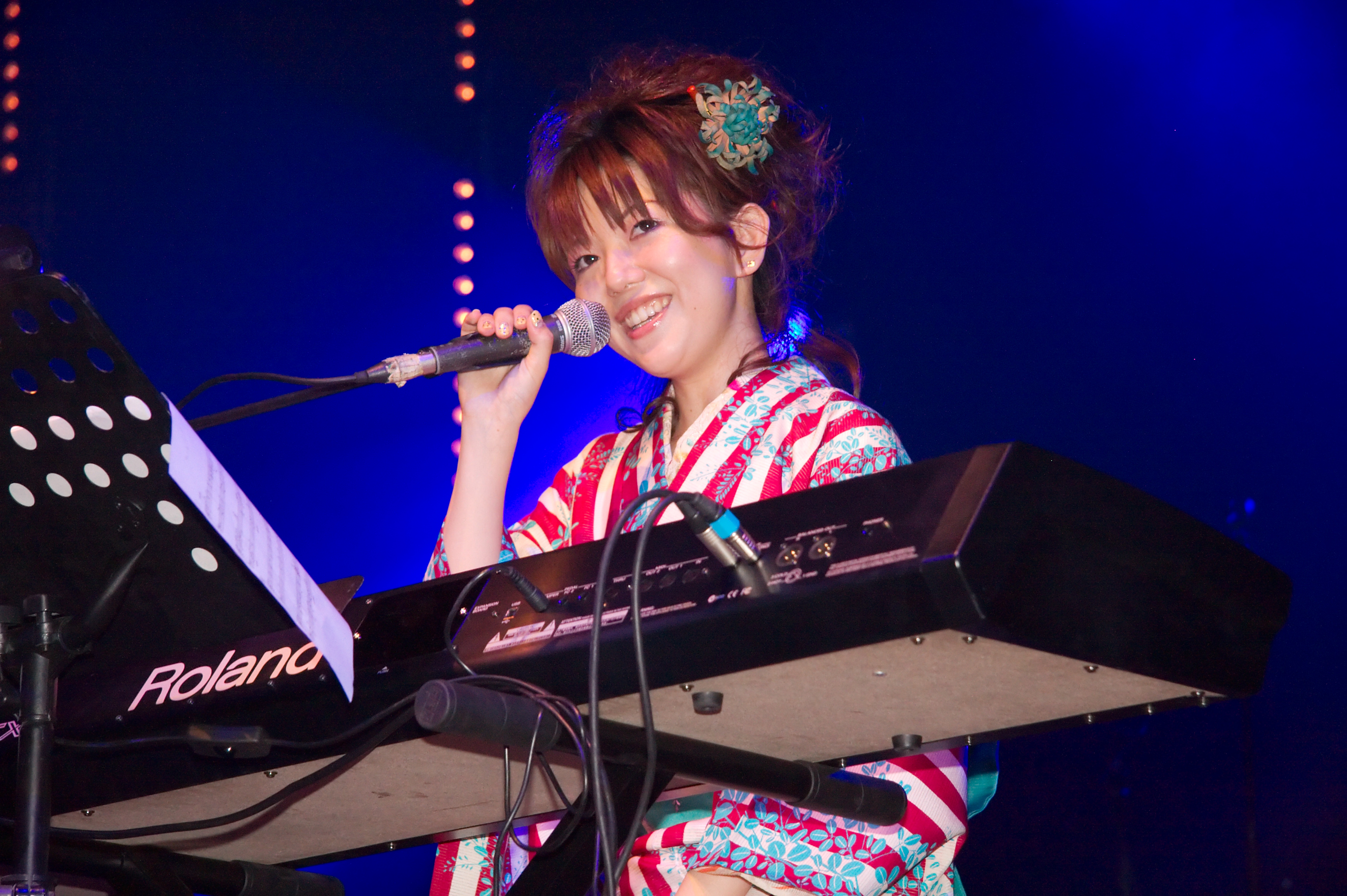 Yui Makino live at Japan Expo 2009 (Paris, France).